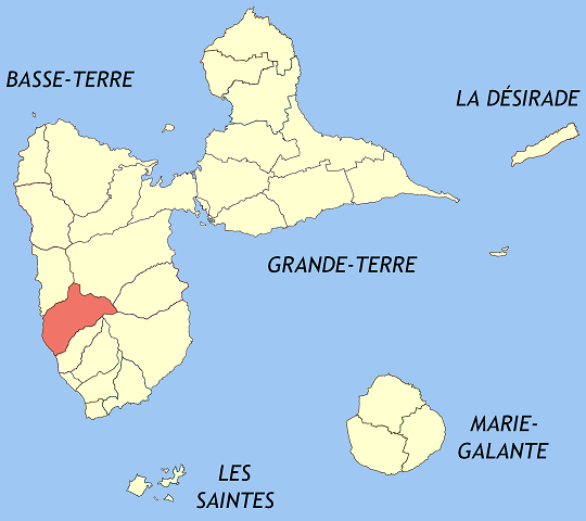 Location of Vieux-Habitants within Guadeloupe